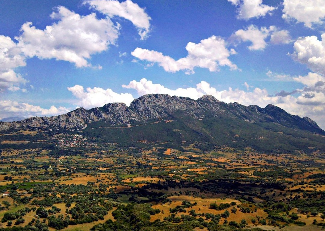 Skollis Mt. (alternative names: Santamerianiko, Santameri, Portovouni, Porteiko, Chatzouri)